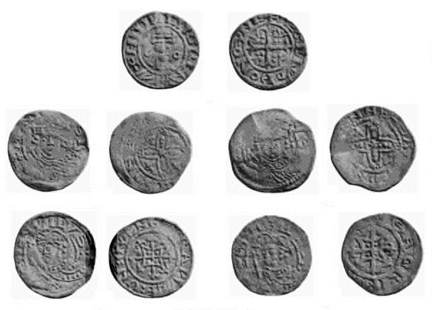 Henry I of England silver pennies from the Oxford Mint